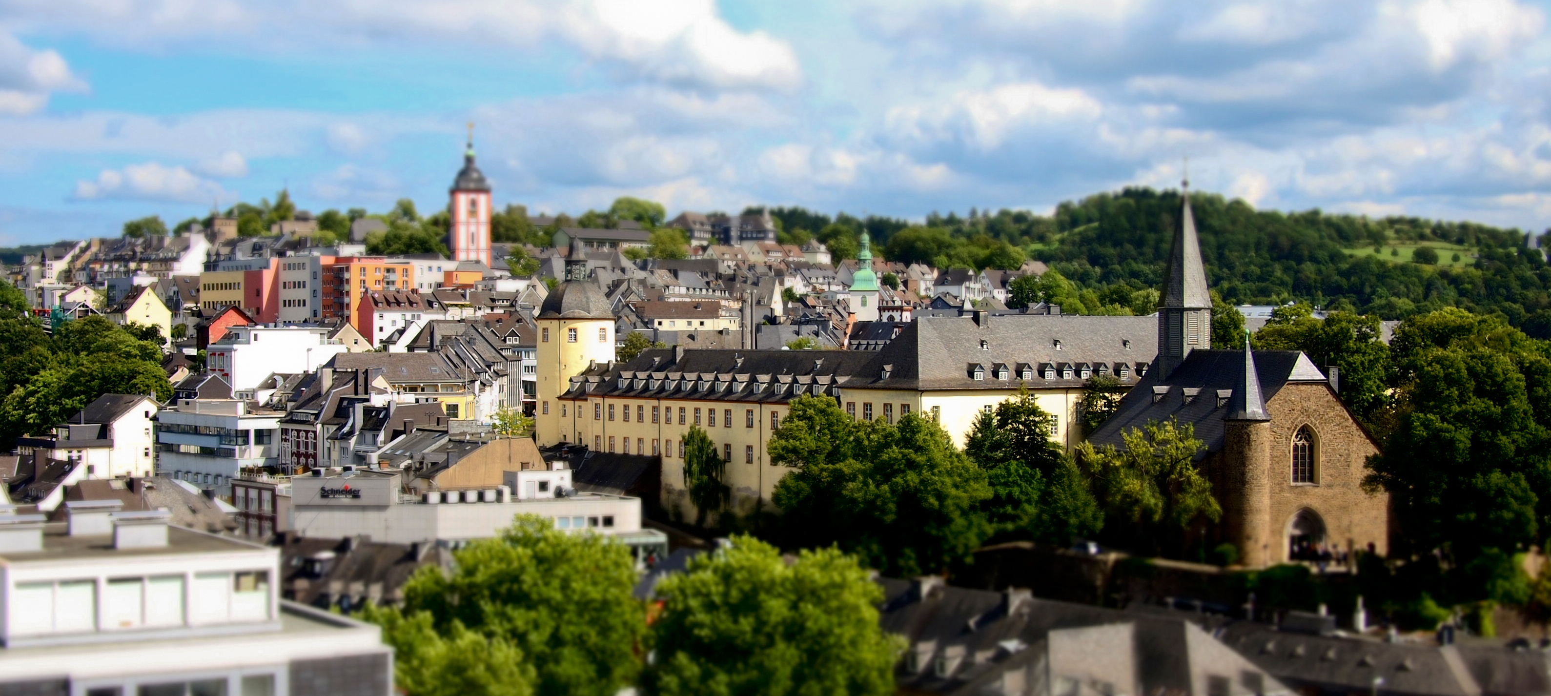 the new Unteres Schloss Campus of the University of Siegen